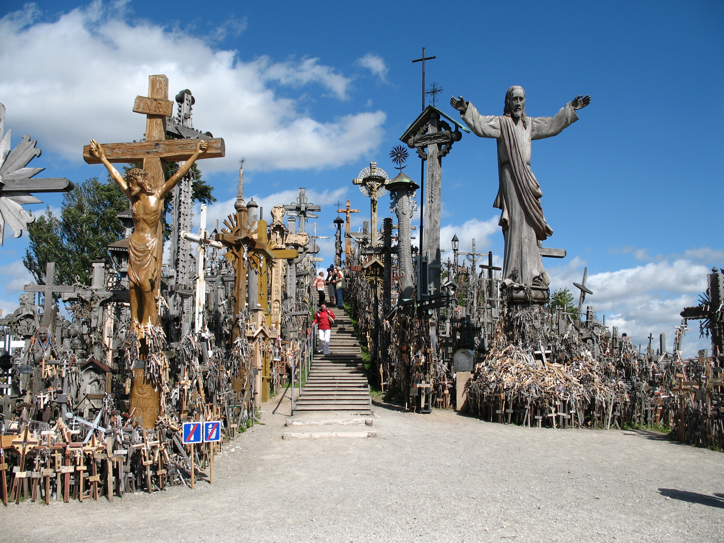 Hill of Crosses, Lithuania, summer 2007